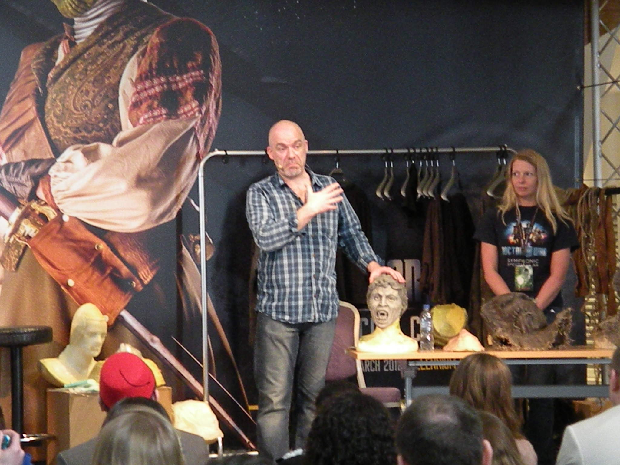 Doctor who convention Doctor Who Experience